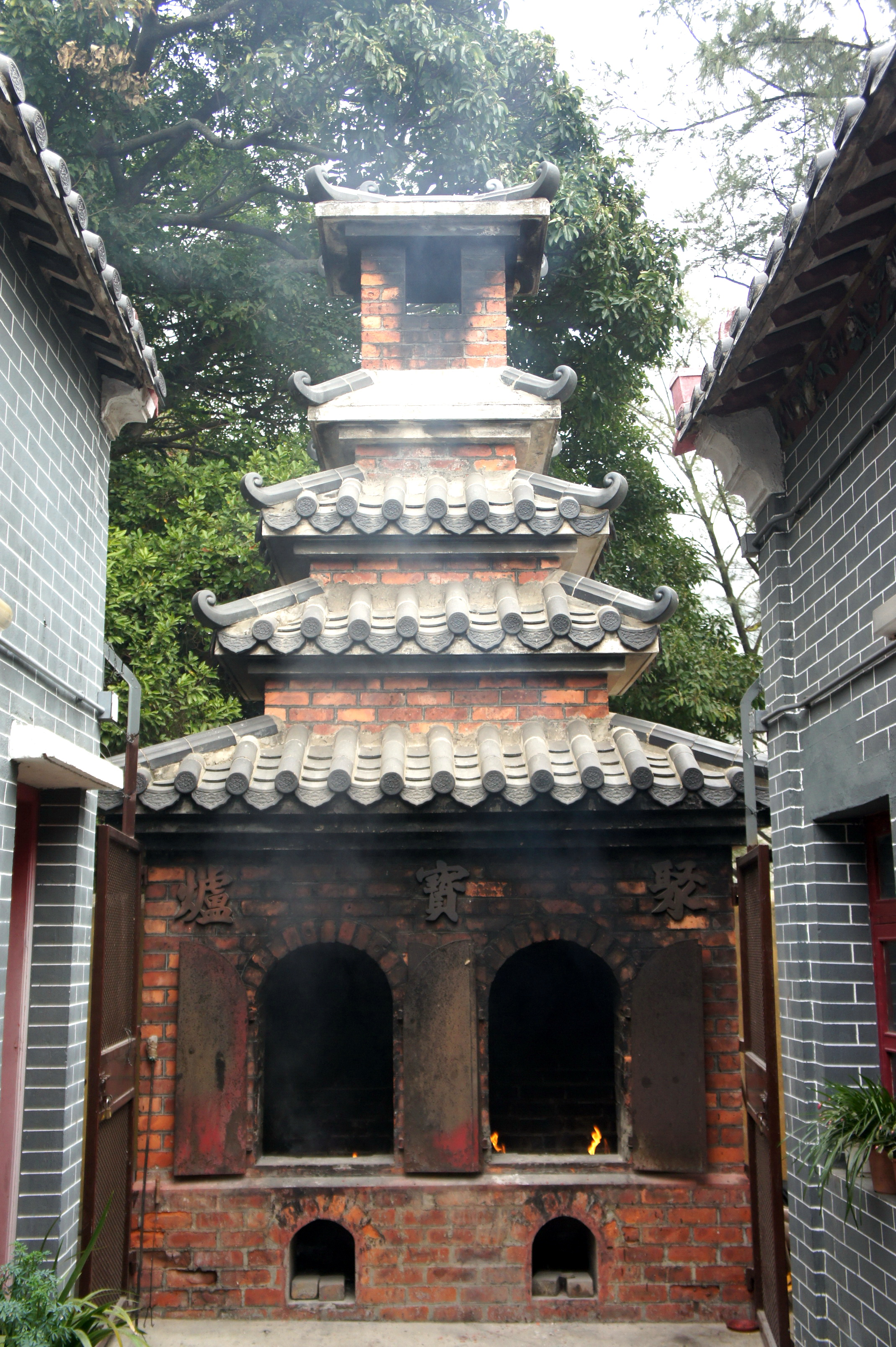 Joss paper furnace in the Hau Wong Temple, Tai O, Lantau Island, Hong Kong.